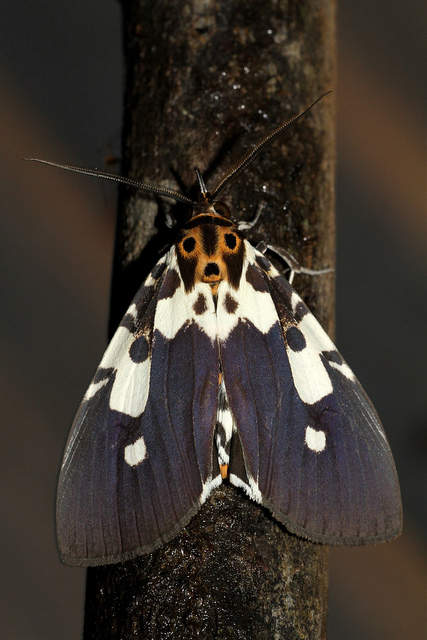 Borneo, Trusmadi area, hill mixed dipterocarp forest